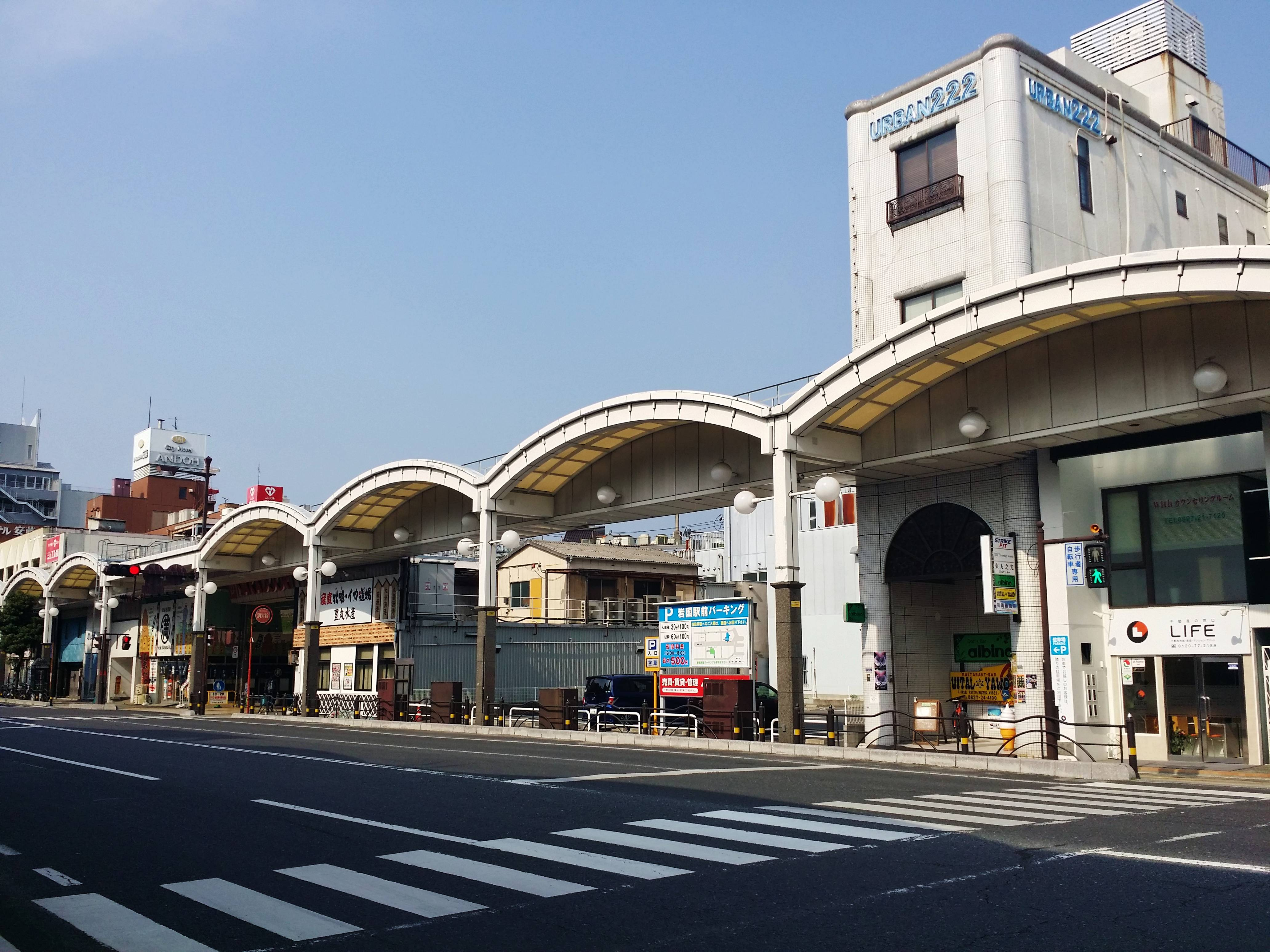 Iwakuni Station shopping street.